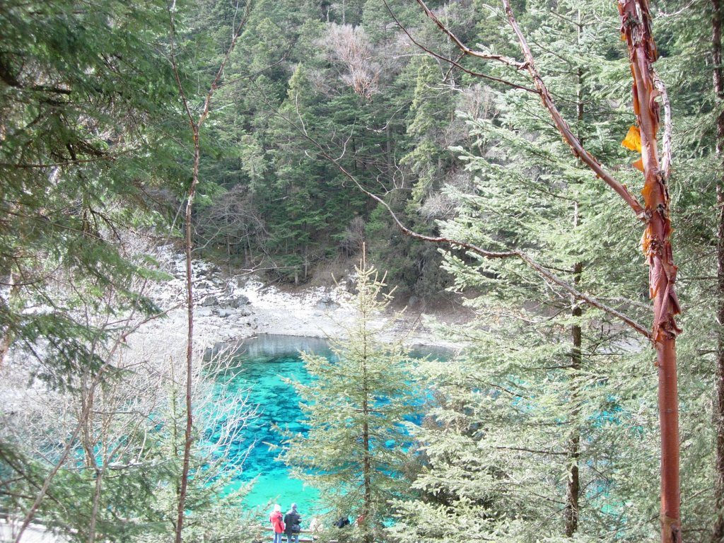 Five color pool in Jiou Zhai Gou 九寨沟之五彩池 photo by Memes